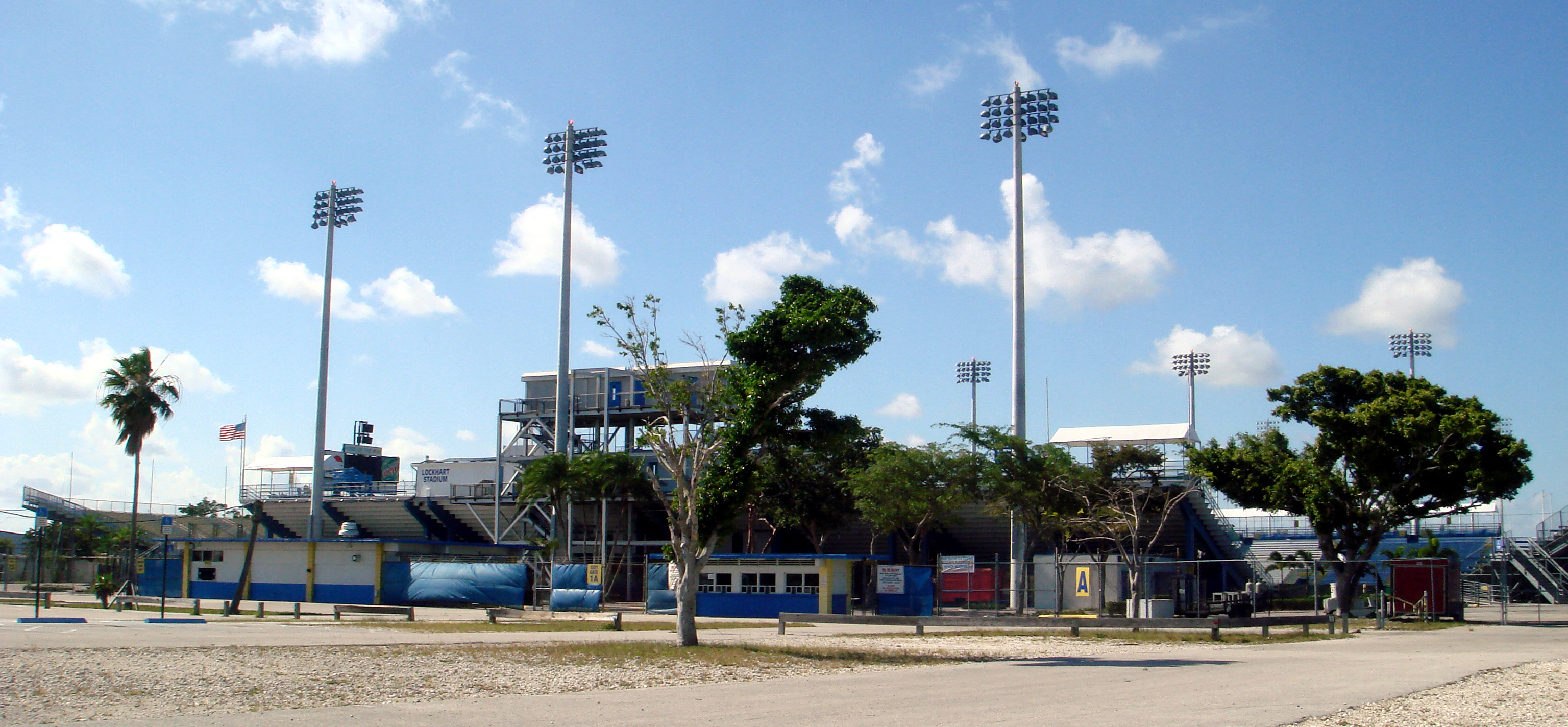 Lockhart Stadium, in Fort Lauderdale, Florida, current home of the Florida Atlantic Owls football.